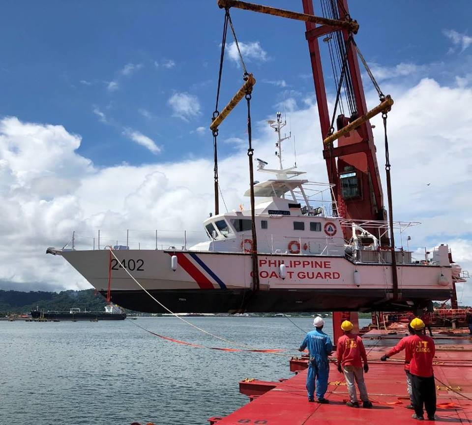 Owned by Philippine Coast Guard and it is public domain. BRP Panglao was arrived at Subic Port last September 3, 2018